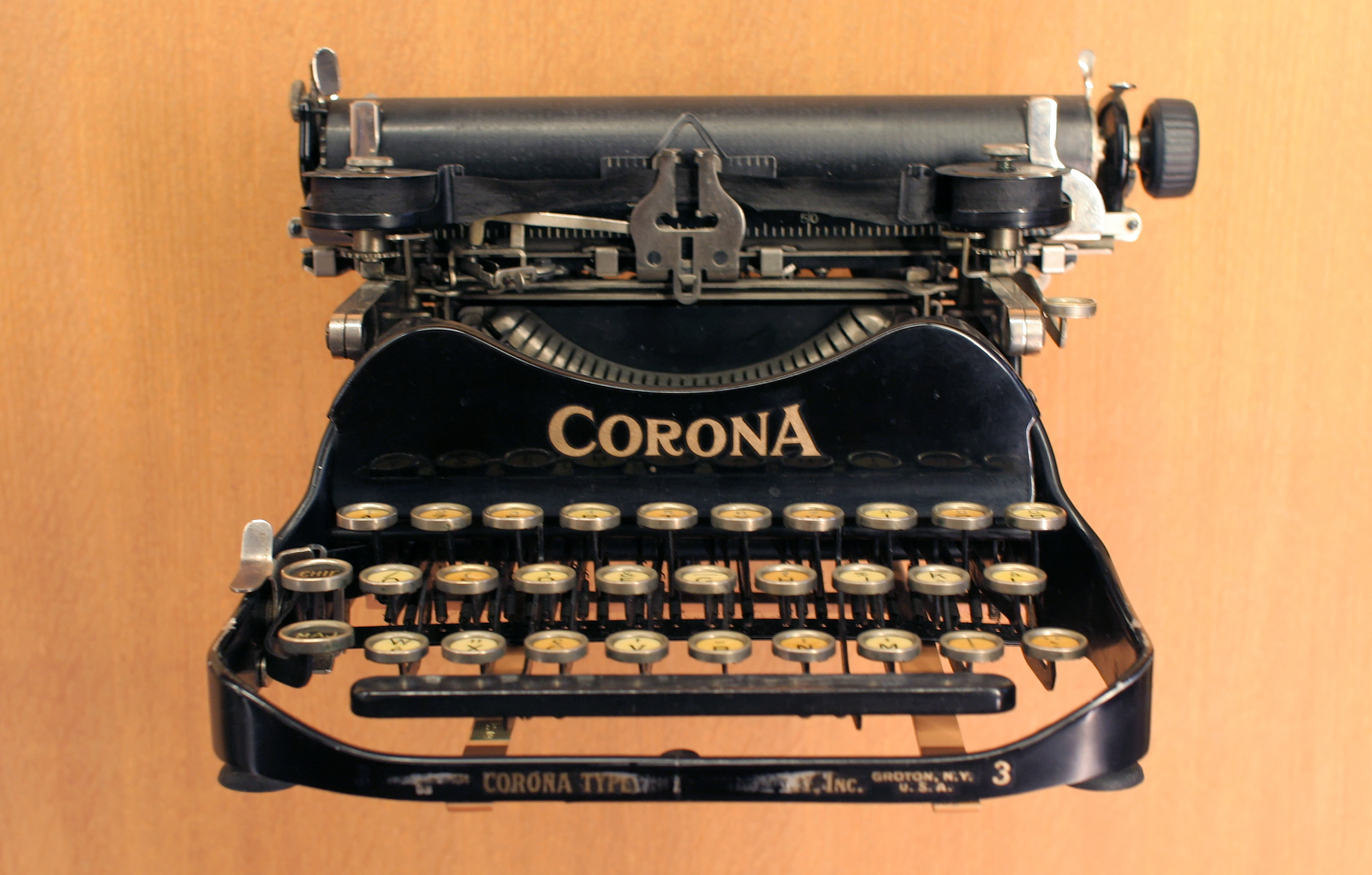 Corona portable typewiter